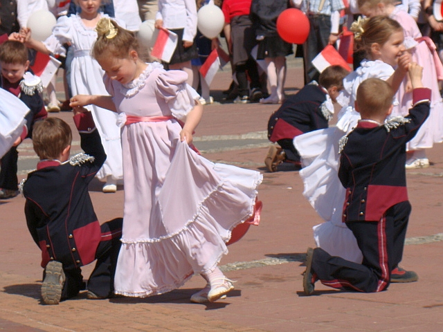 Flag Day in Sanok